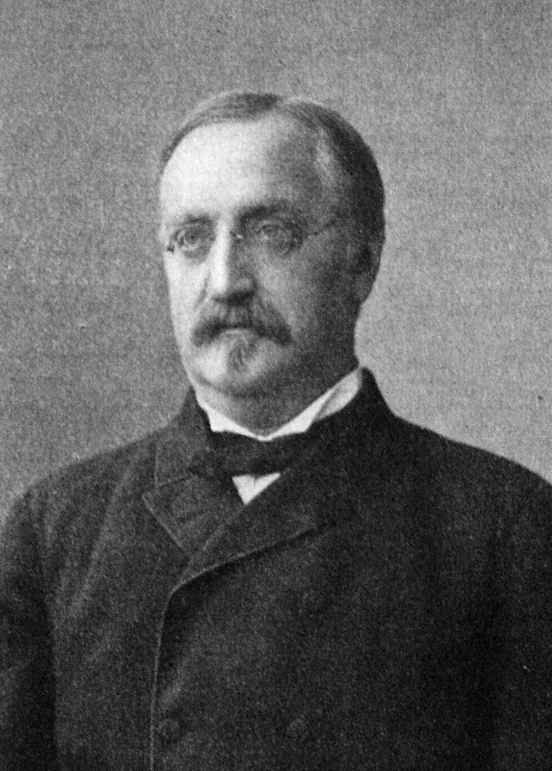 Picture of Johan Wolter Arnberg (1832-1900), Swedish economist and banker, Photo before his death in 1900.